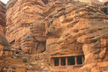 Badami caves